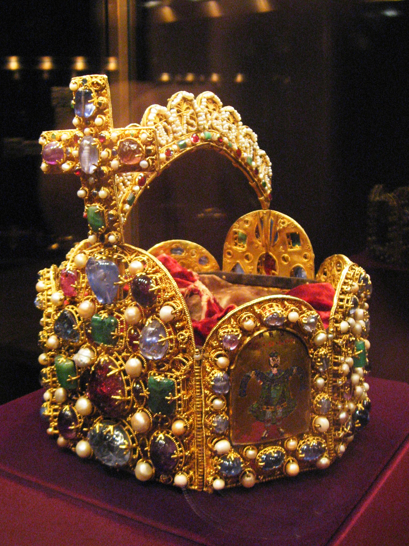 The Imperial Crown Western Germany 2nd half of the 10th century The cross is an addition from the early 11th century; the arch dates from the reign of Emperor Conrad II (ruled 1024-1039); the red velvet cap is from the 18th century. Gold, cloisonné enamel, precious stones, pearls Brow plate: H 14.9 cm, W 11.2 cm; cross: H 9.9 cm SK Inv. No. XIII 1